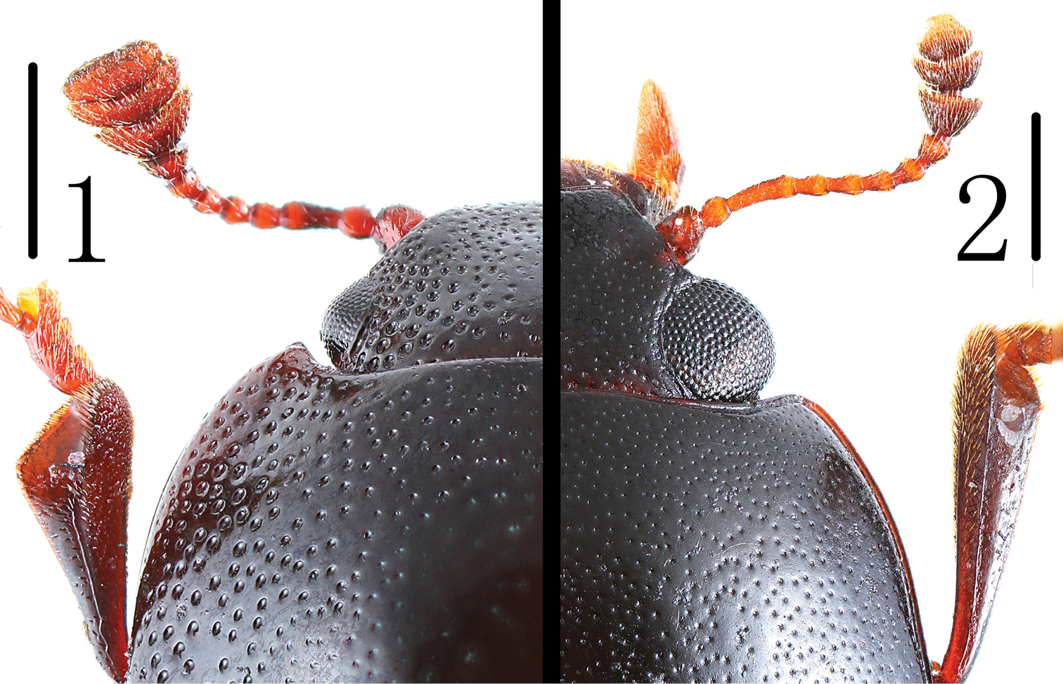 Head of 1 Scelidopetalon biwenxuani and 2 Amblyopus vittatus in dorsal view. Scale = 0.5 mm.